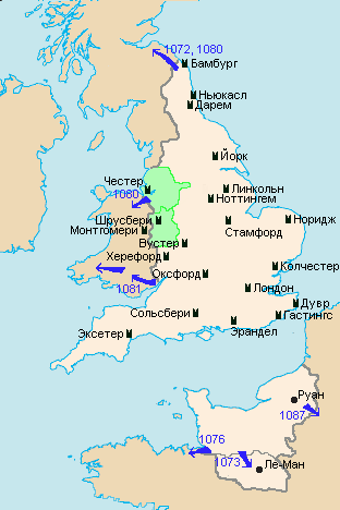 Russian map of the Kingdom of England in 1087, after the Norman conquest of England.